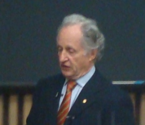 Mario Capecchi, at the University of Texas Health Science Center, San Antonio, 2008